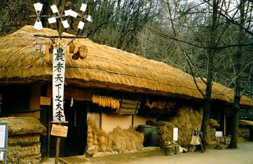 Traditional farmer's house of Korea, located in the folk village in, South Korea.